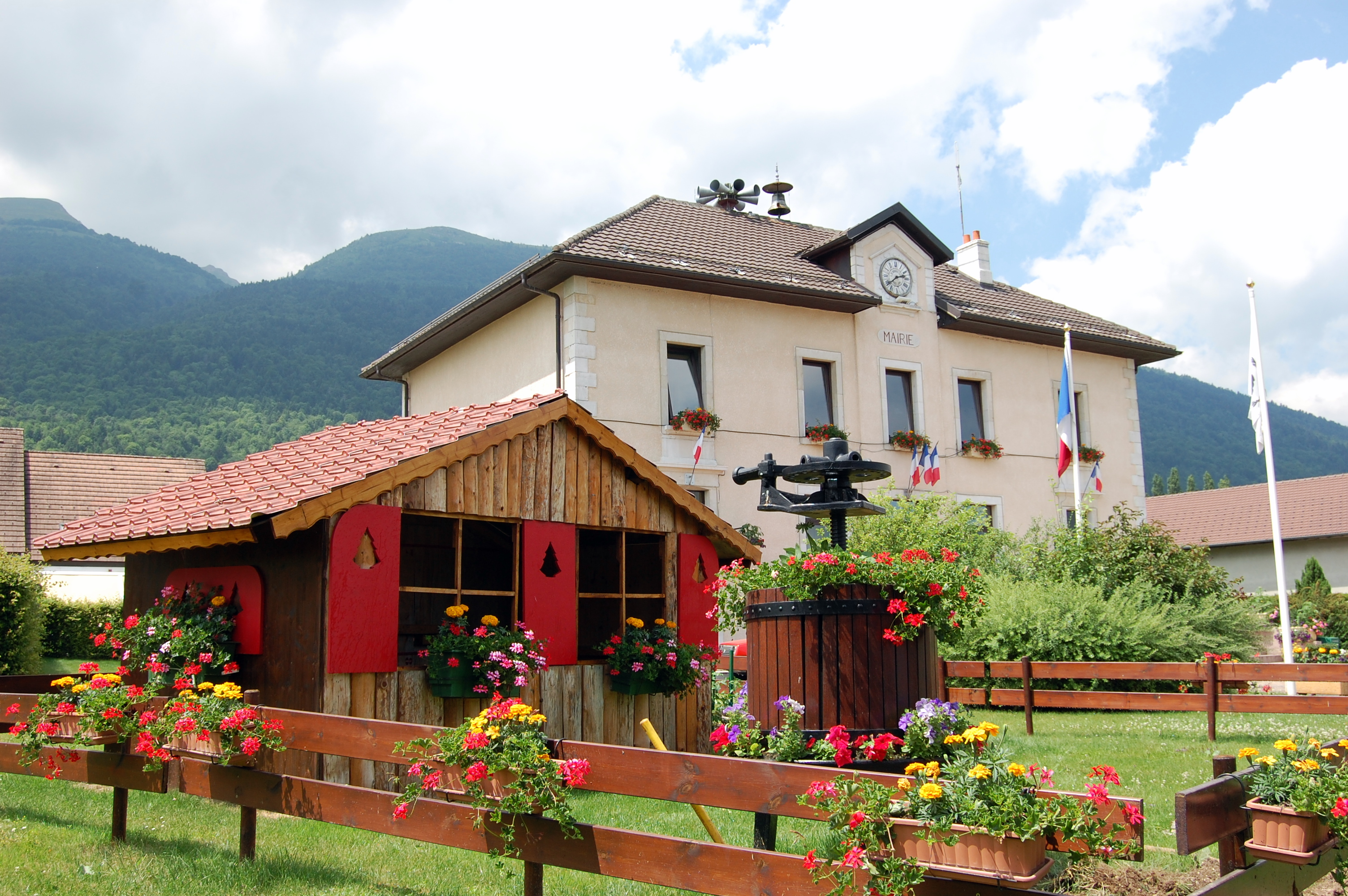 A picture of Echenevex Cityhall (Ain, East of France)